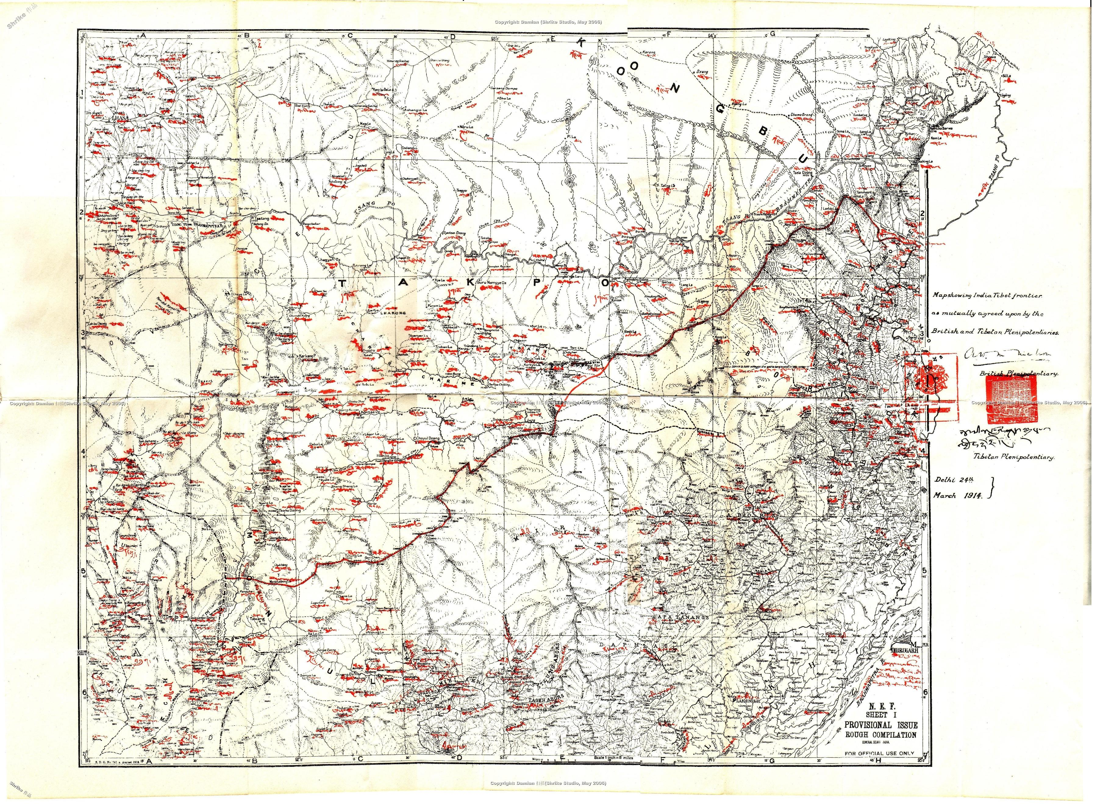 McMahon Line Simla Accord Treaty 1914 Map1.jpg